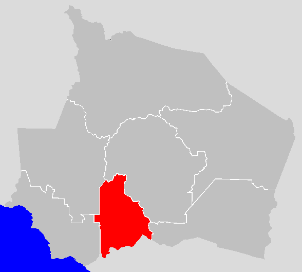 district map of Negeri Sembilan , Malaysia (using [1] as reference)